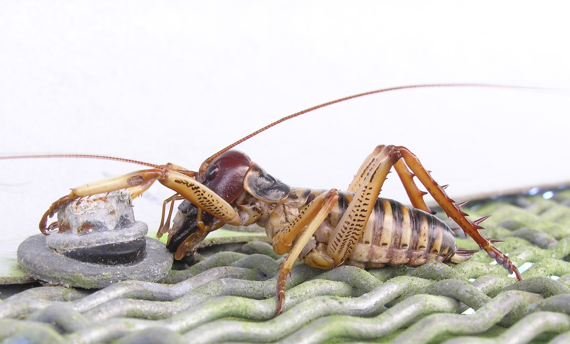 Male Wellington tree weta (Hemideina crassidens).